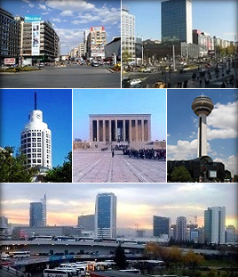 Collage of Ankara